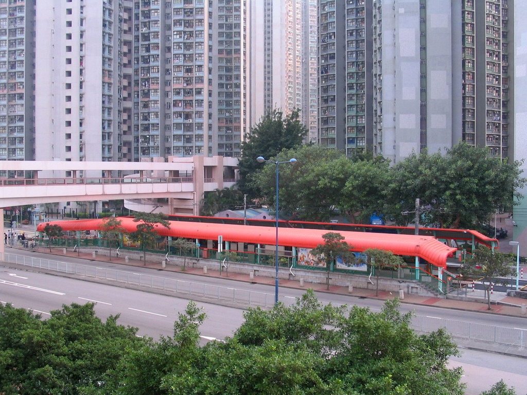 輕鐵 天慈站 Tin Tsz Stop, Light Rail